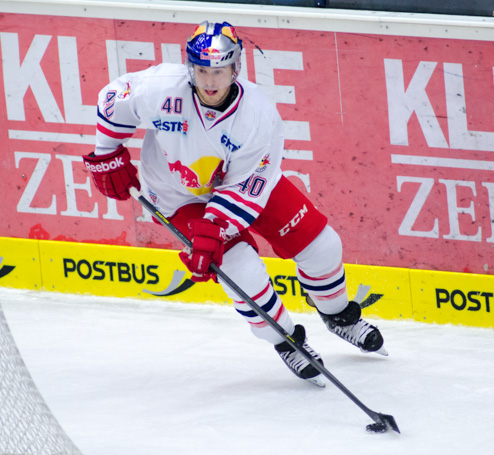 25.10.2013, Stadthalle Villach, AUT, EBEL, 27. Runde, EC VSV vs. EC RED BULL Salzburg, im Bild // frostworx Pictures © 2013, PhotoCredit: frostworx / Alex Micheu